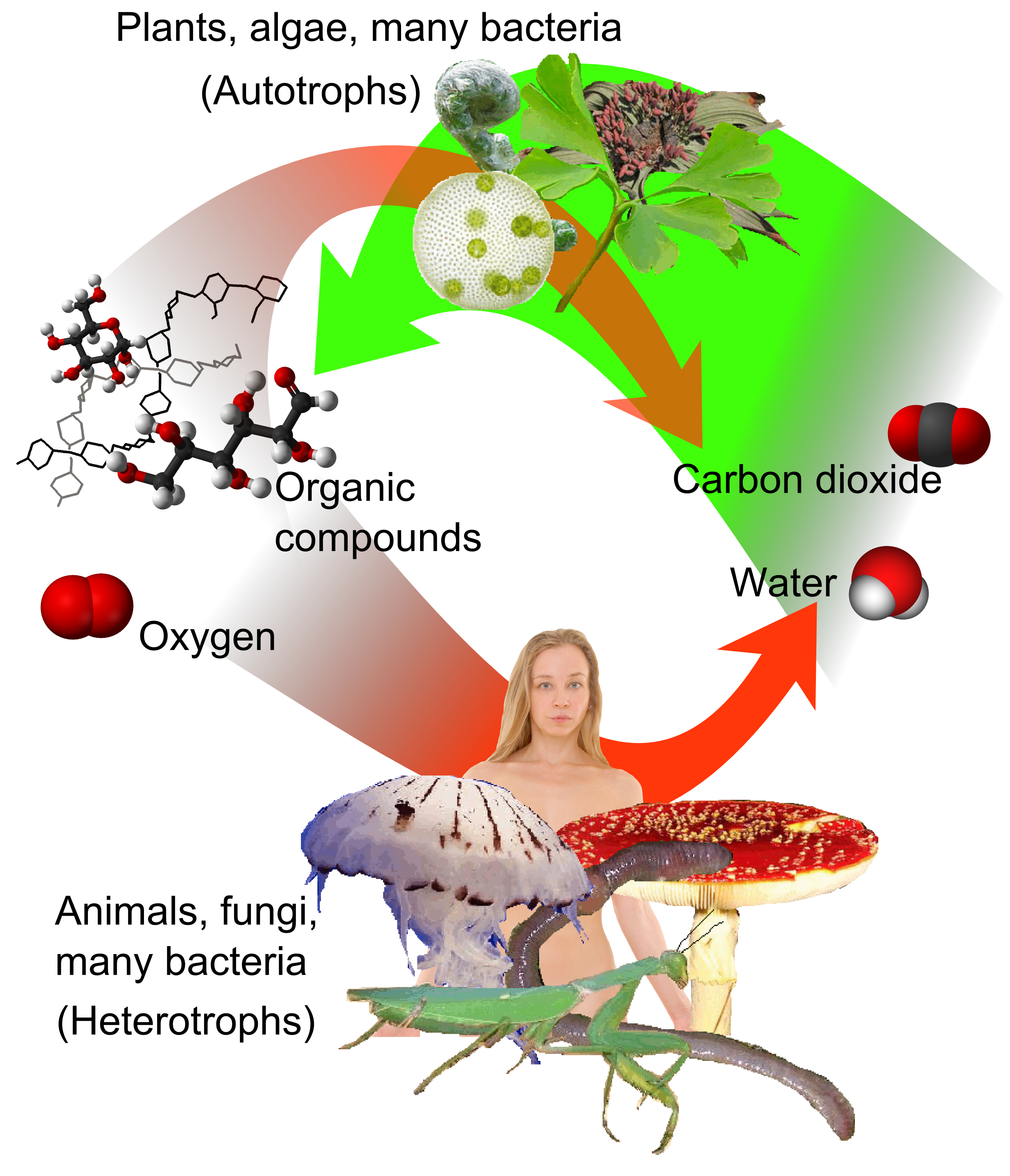 Cycle between autotrophs and heterotrophs. Autotrophs can use carbon dioxide (CO2) and water to form oxygen and complex organic compounds, mainly through the process of photosynthesis. All organisms can use such compounds to again form CO2 and water through cellular respiration.